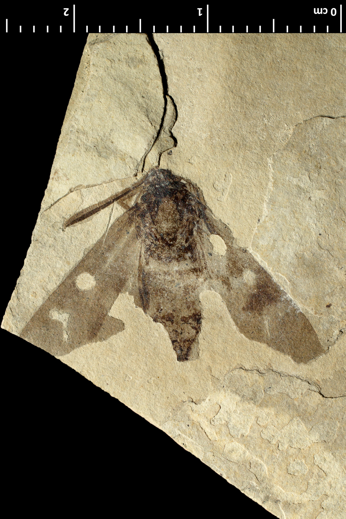 The Neurosymploca? oligocenica holotype part side with direct lighting. Rupelian, Céreste, Alpes-de-Haute-Provence, France Muséum national d'Histoire naturelle specimen MNHN.F.R25198